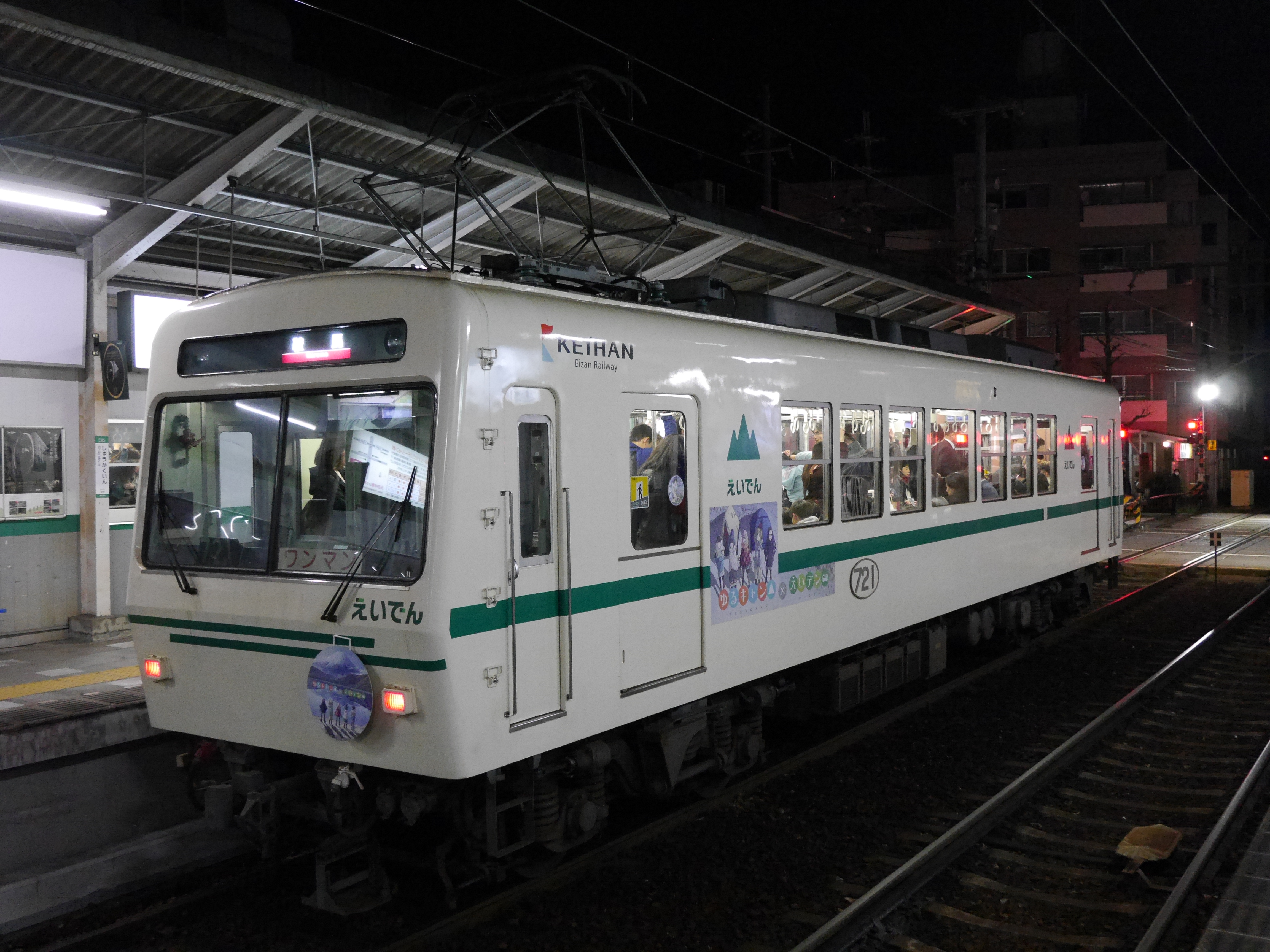 An Eizan Electric Railway train with DEO 721 driving motor car to Kurama